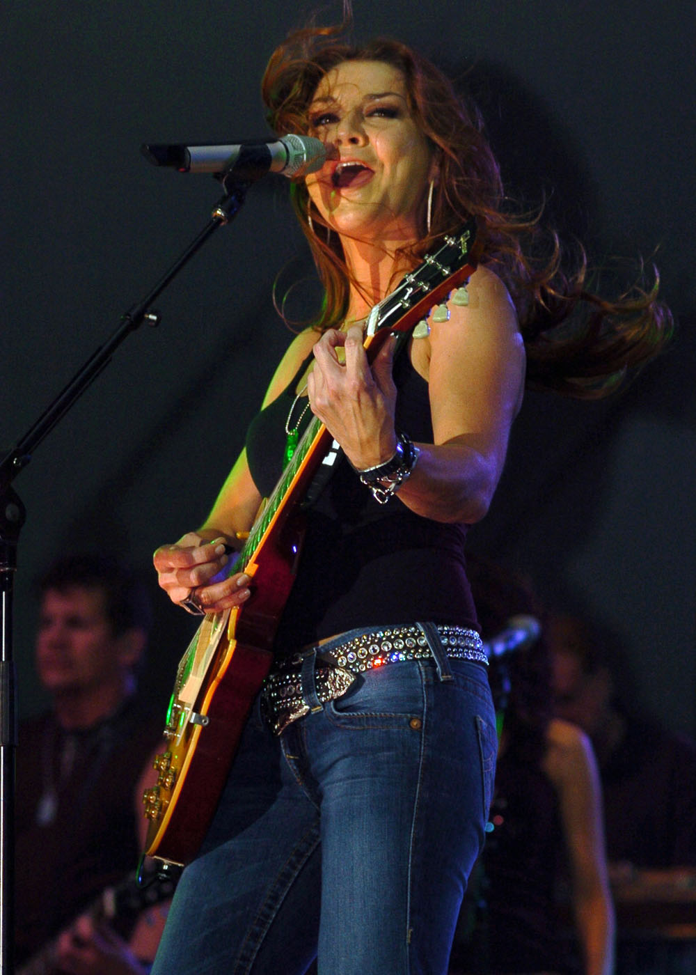 VIRGINIA BEACH, Va. (Aug. 8, 2008) Country music singer Gretchen Wilson performs to a capacity crowd of More than 15,000 fans at Little Creek Amphibious Base. Wilson was in town to perform a free concert as part of the "2008 Summer Concert Series" sponsored by the USO.